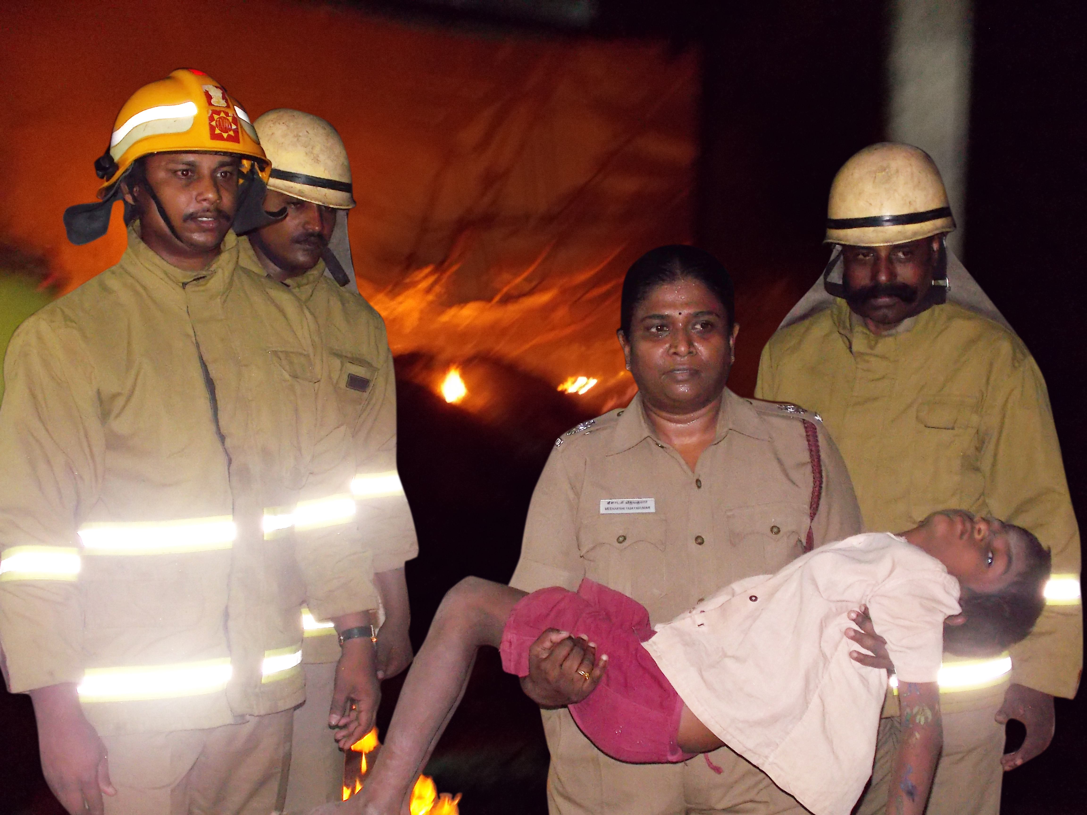 At her rescue work